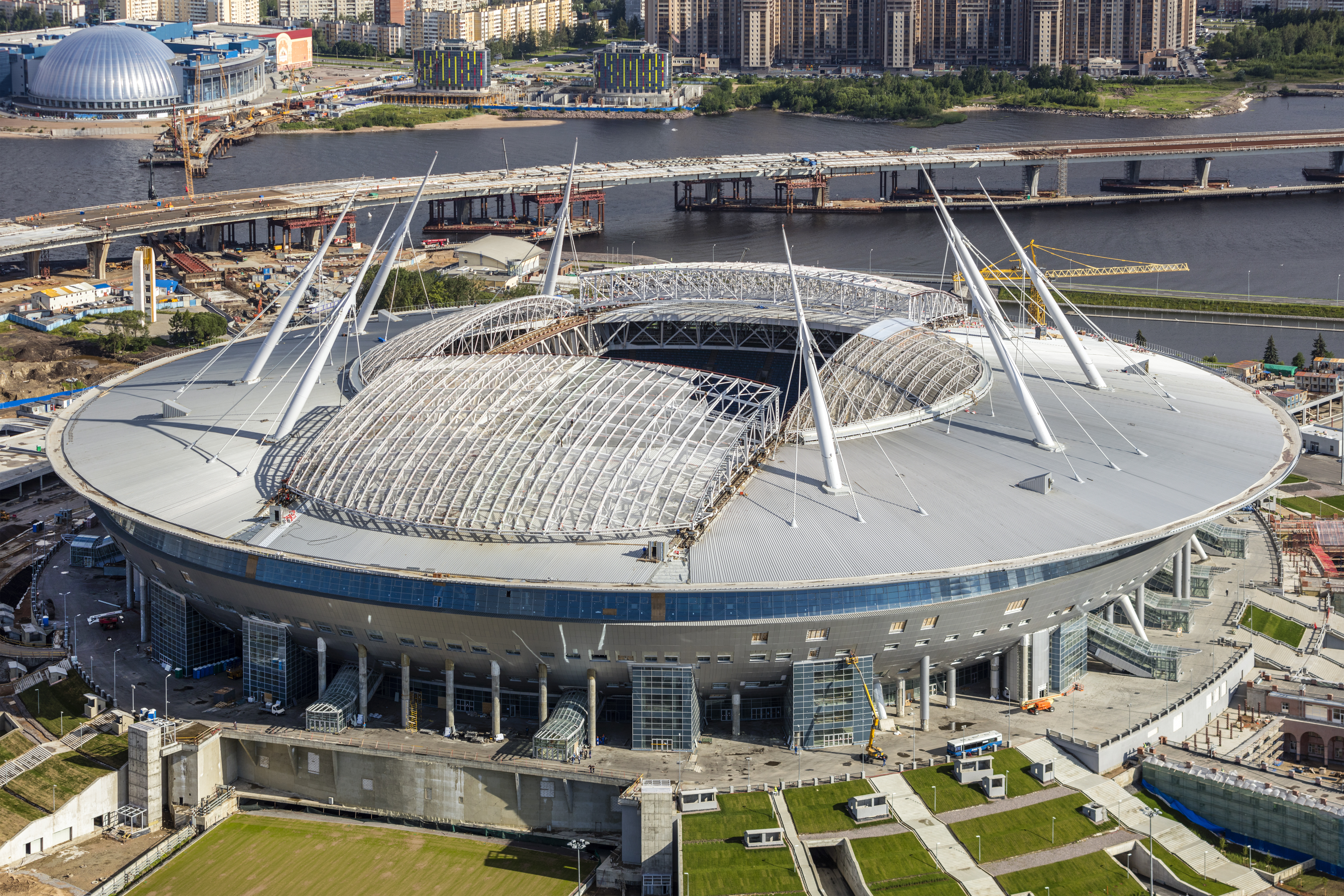 The Krestovsky Stadium, Krestovsky Island, Saint Petersburg, Russia.